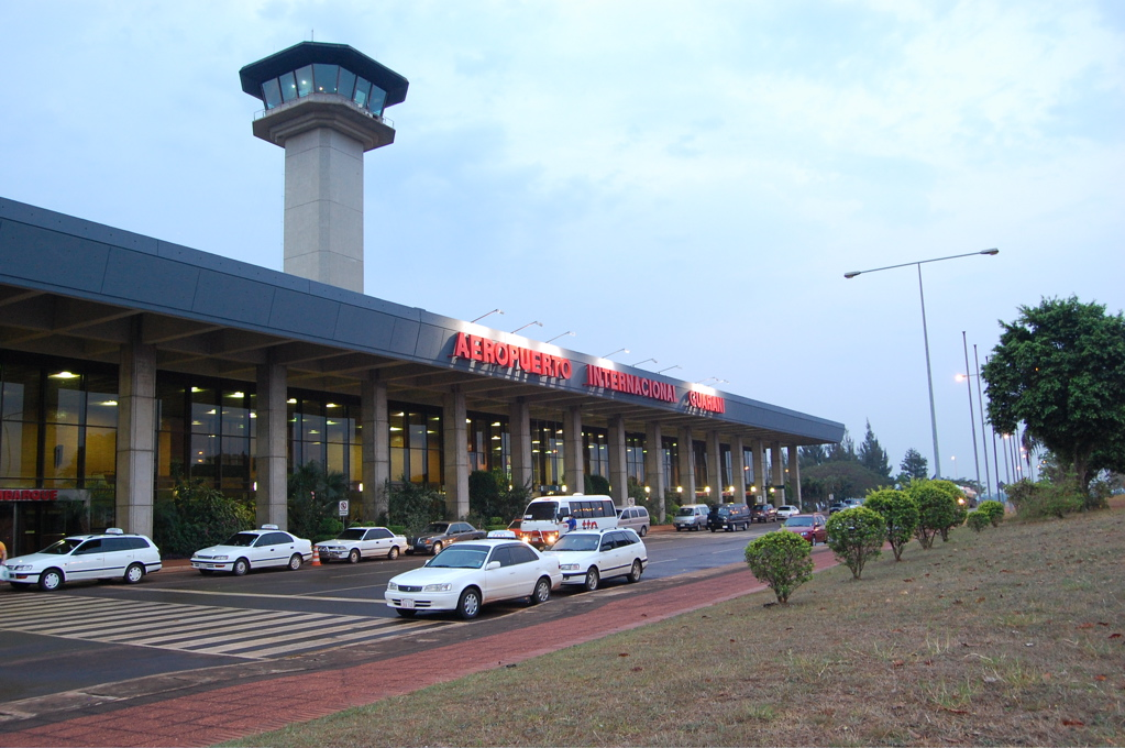 Aeropuerto Internacional Guarani de Ciudad del Este Guarani International Airpot of Ciudad del Este Mba´yruveve Guejyha Guaraní Ciudad del Este pegua